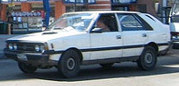 A street in Cairo. Among the vehicles on the picture there is an FSO Polonez MR'83 (produced by Nasr under FSO license).